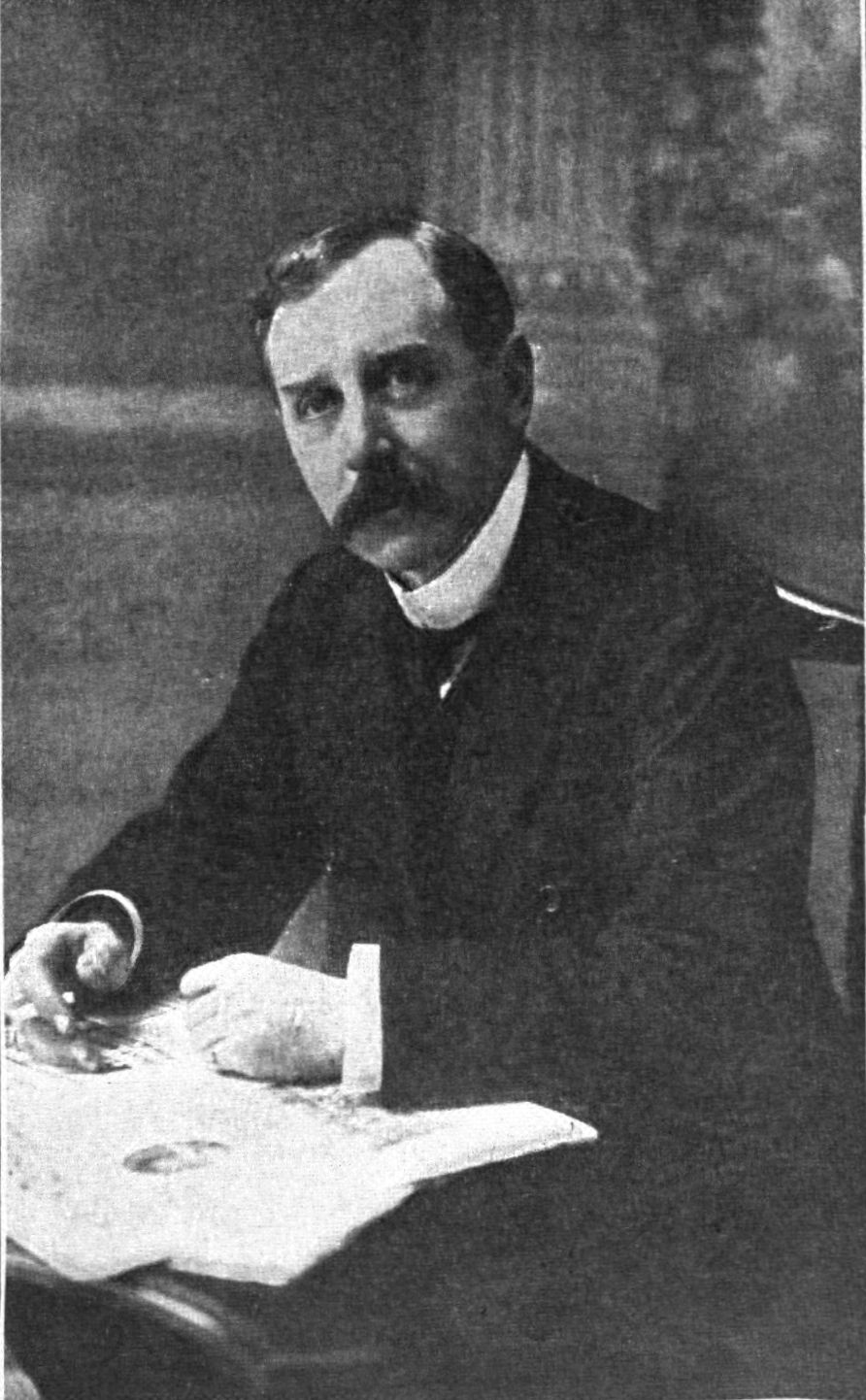 Edwin H. Lemare (1865-1934) was an English organist, composer and music editor.